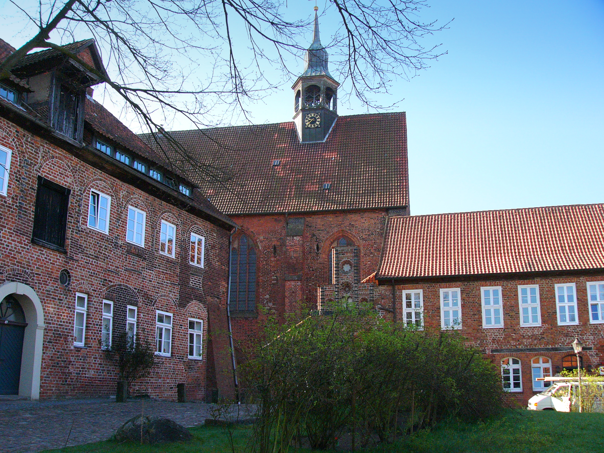 Monastery Lüne and church St. Bartholomäi in Lüneburg, Germany